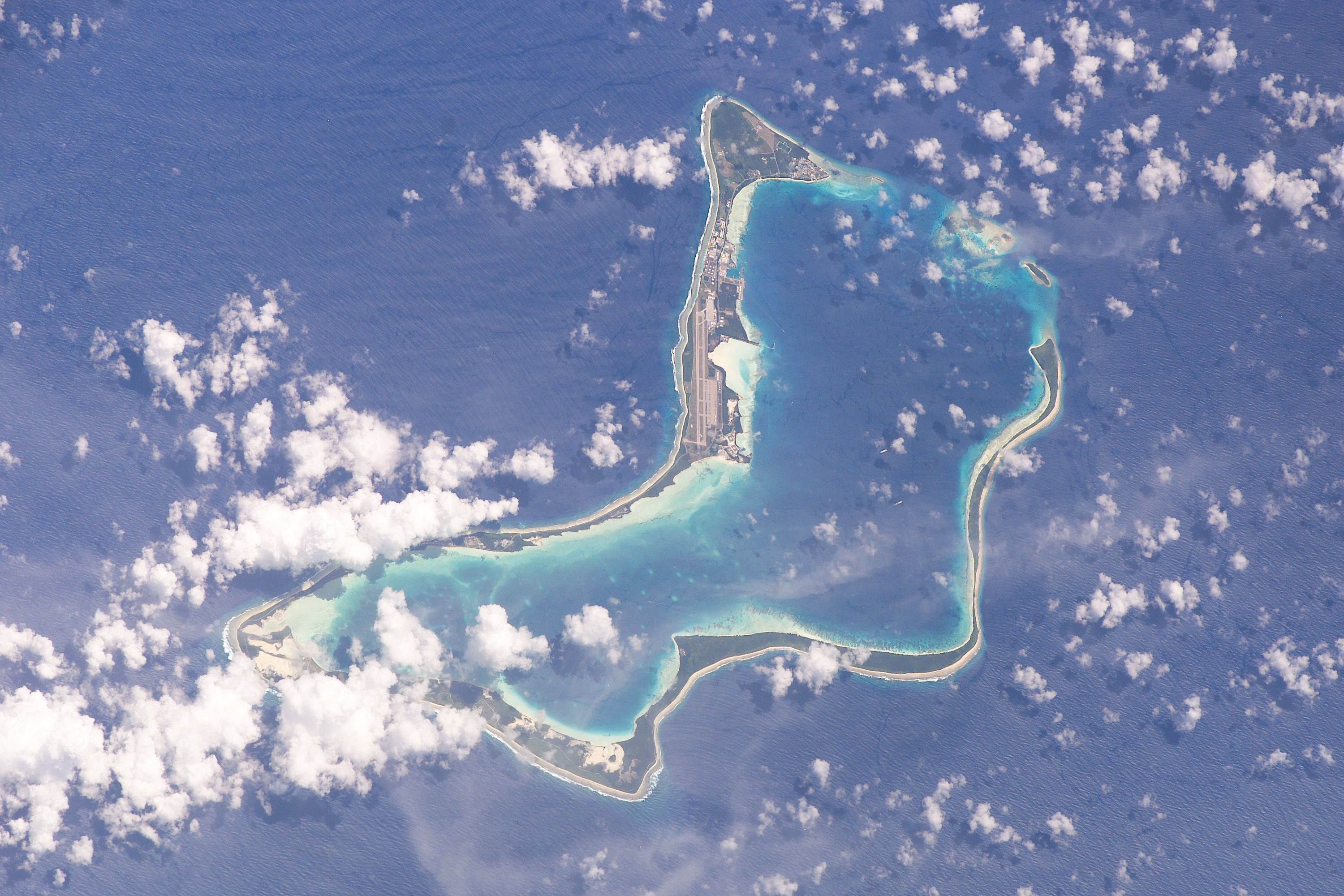 NASA astronaut image of Diego Garcia Atoll, Chagos Archipelago, British Indian Ocean Territory